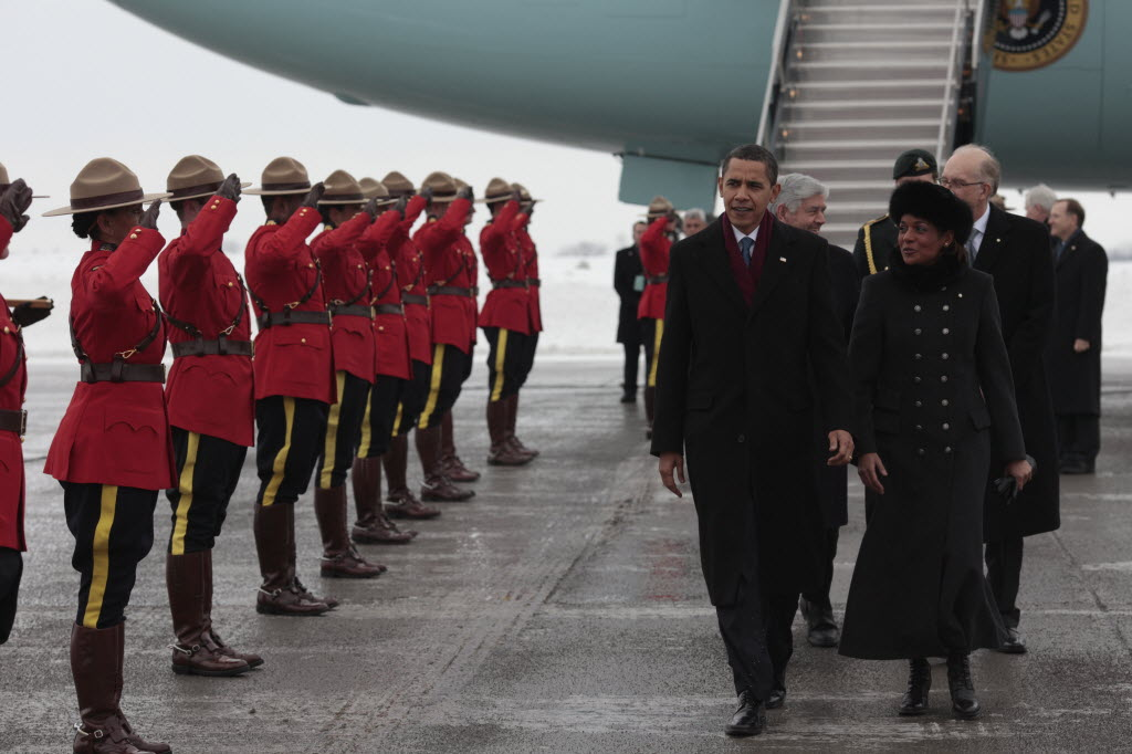 President Barack Obama is welcomed to Canada by Governor General Michaëlle Jean and a contingent of Royal Canadian Mounted Police.